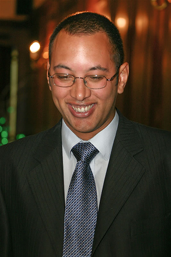 Jon Tickle Photographer: Sean Johnson